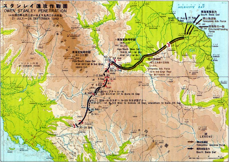 Japanese offensive in the Owen Stanleys, 21 July-26 September 1942